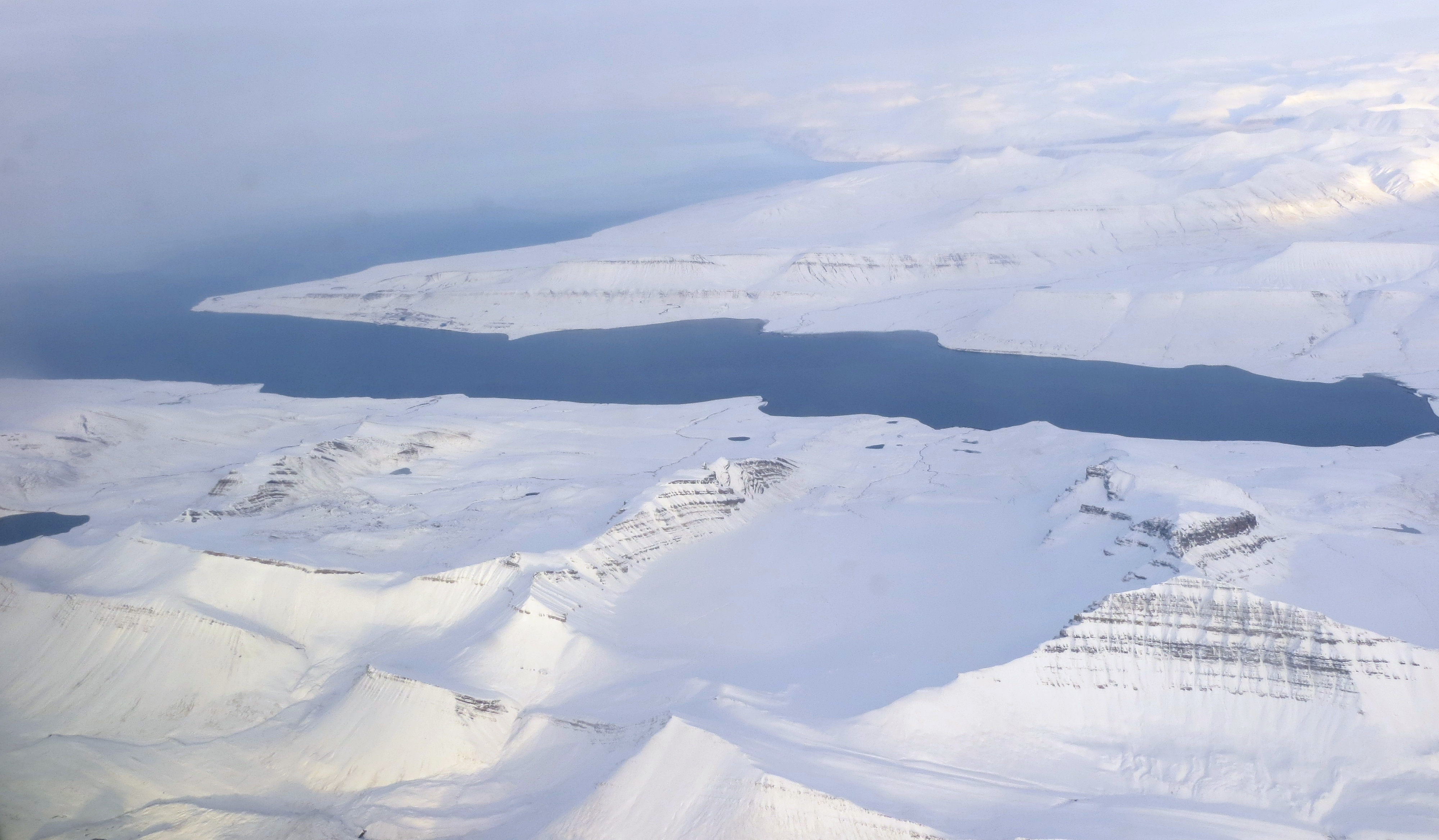 Aerial view of the western part of Nordenskiöld Land, the areas between Bellsund, Grönfjorden and Isfjorden. Western Spitsbergen, Svalbard.